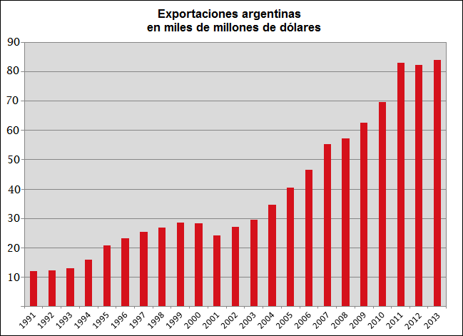 Economic statistics for Argentina